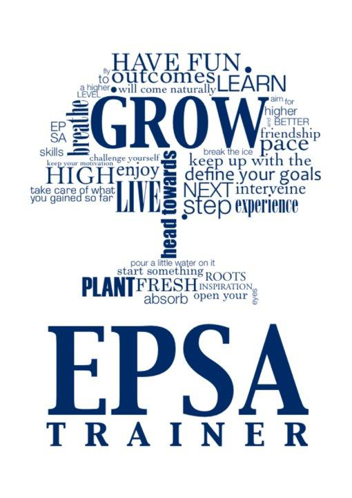 EPSA Trainer logo